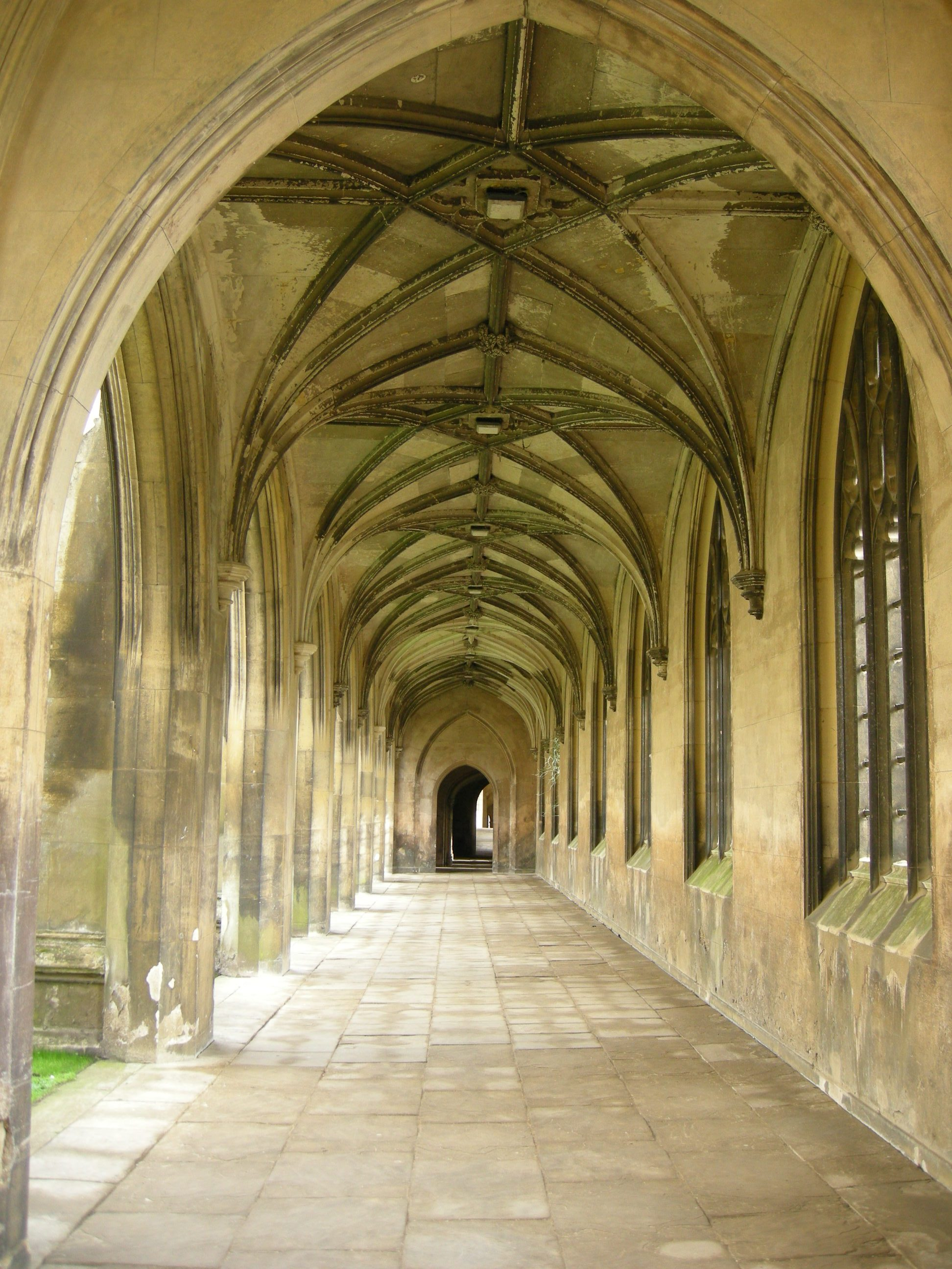 St John's College, new building